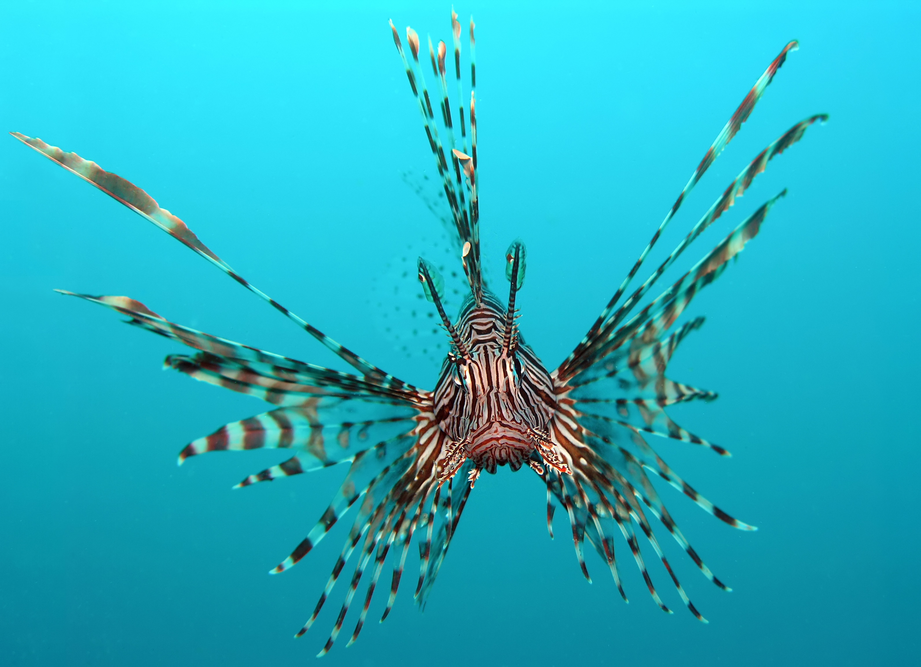 Pterois volitans, also known as red or common lionfish. Picture taken at Tasik Ria, Manado, Sulawesi, Indonesia.